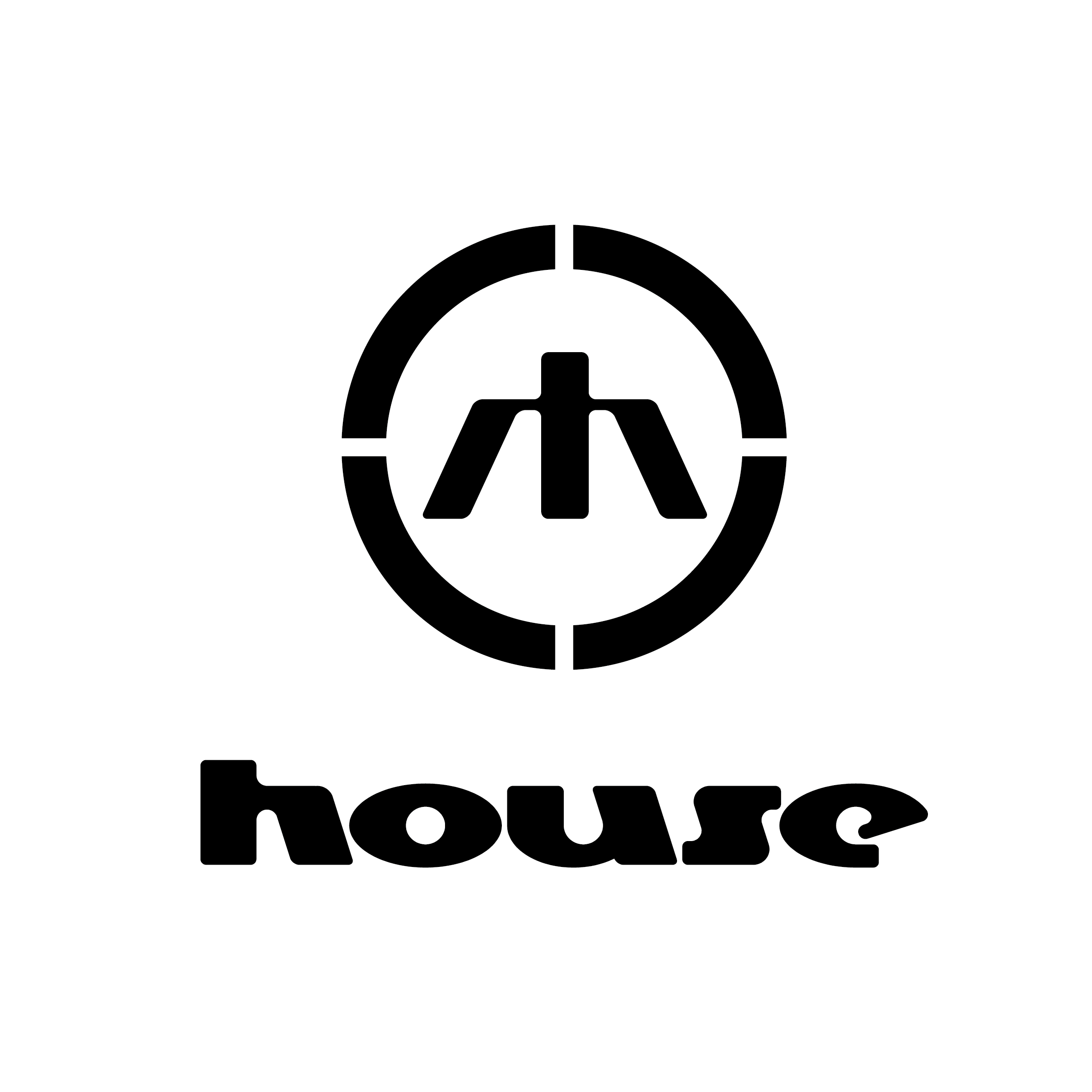 Logo HOUSE